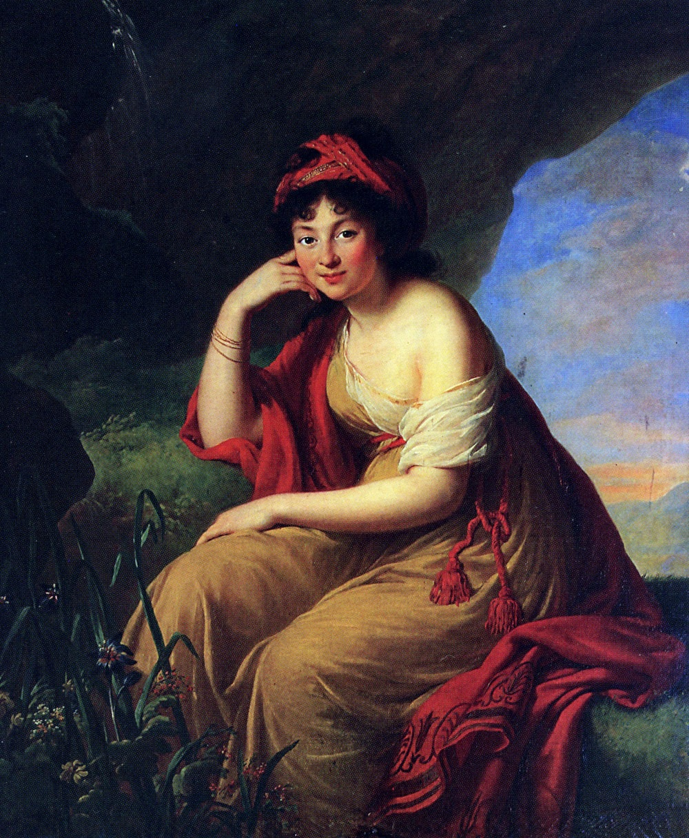 Pelagia Sapieha née Potocka